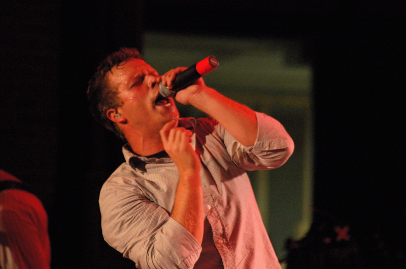 Devin Shelton of Emery